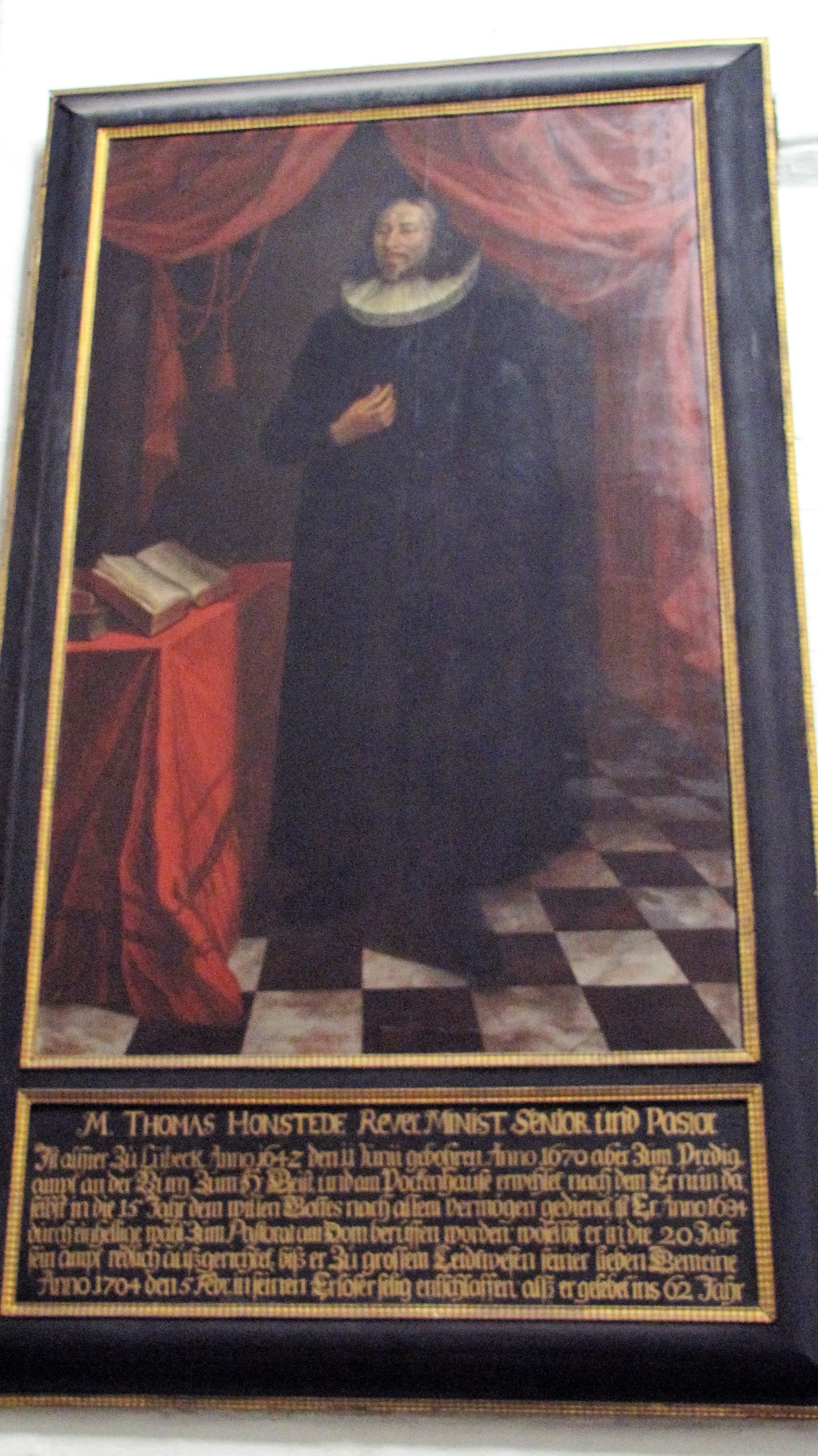 Memorial Portrait of de;Thomasa Honstedt in Lübeck Cathedral